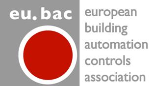 eubac association logo